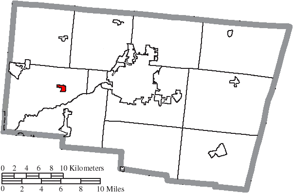 Map of the municipal and township boundaries of Clark County, Ohio, United States, as of the 2000 census, with the location of the village of Donnelsville highlighted. Township borders are shown only in unincorporated areas in order to differentiate incorporated and unincorporated areas more clearly.